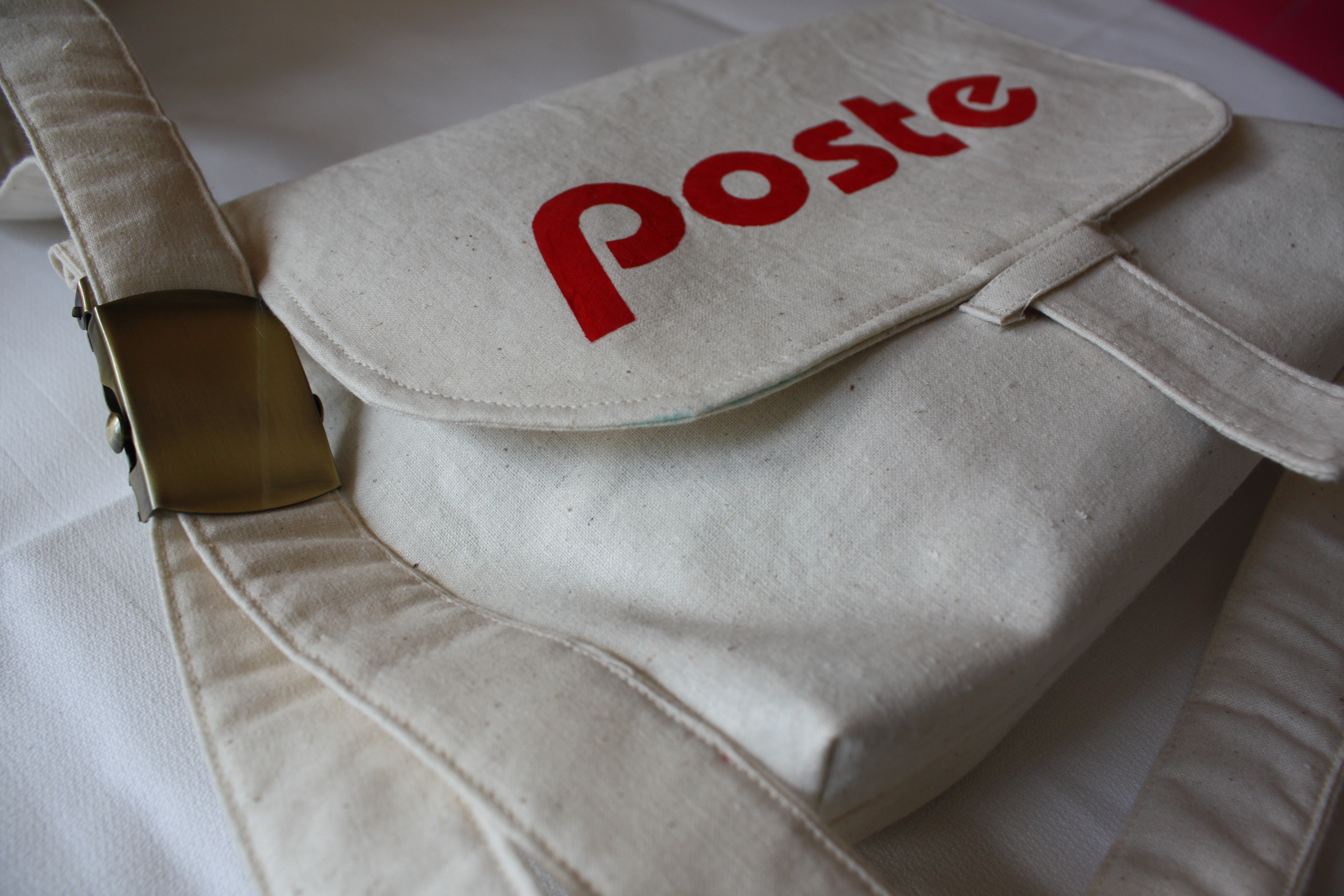 Canvas mail stachel, with adjustable strap